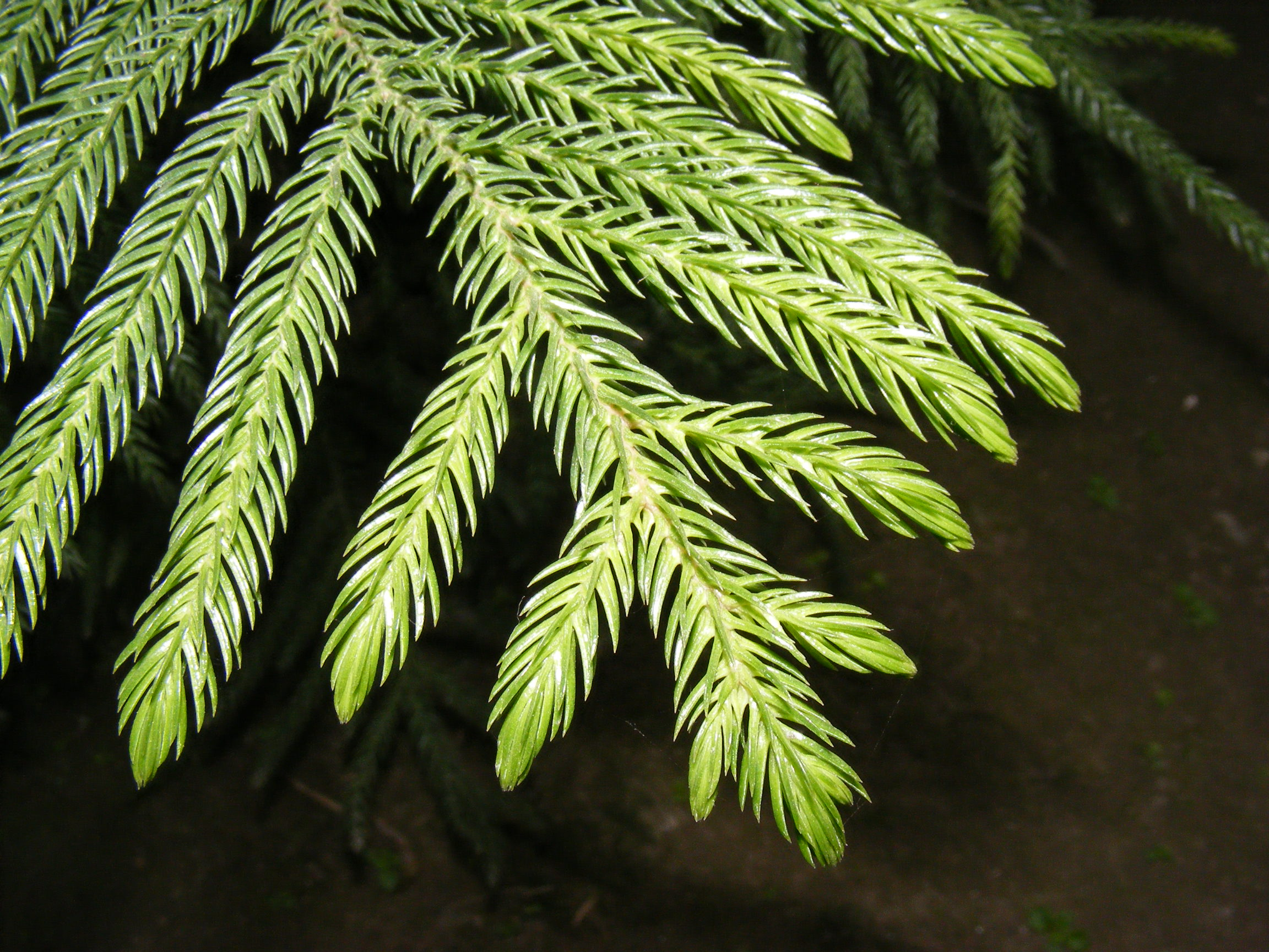 Close up of leaves of Araucaria columnaris